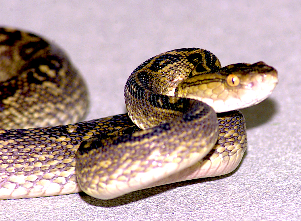 A Habu, a pit viper found in the Ryukyu Islands